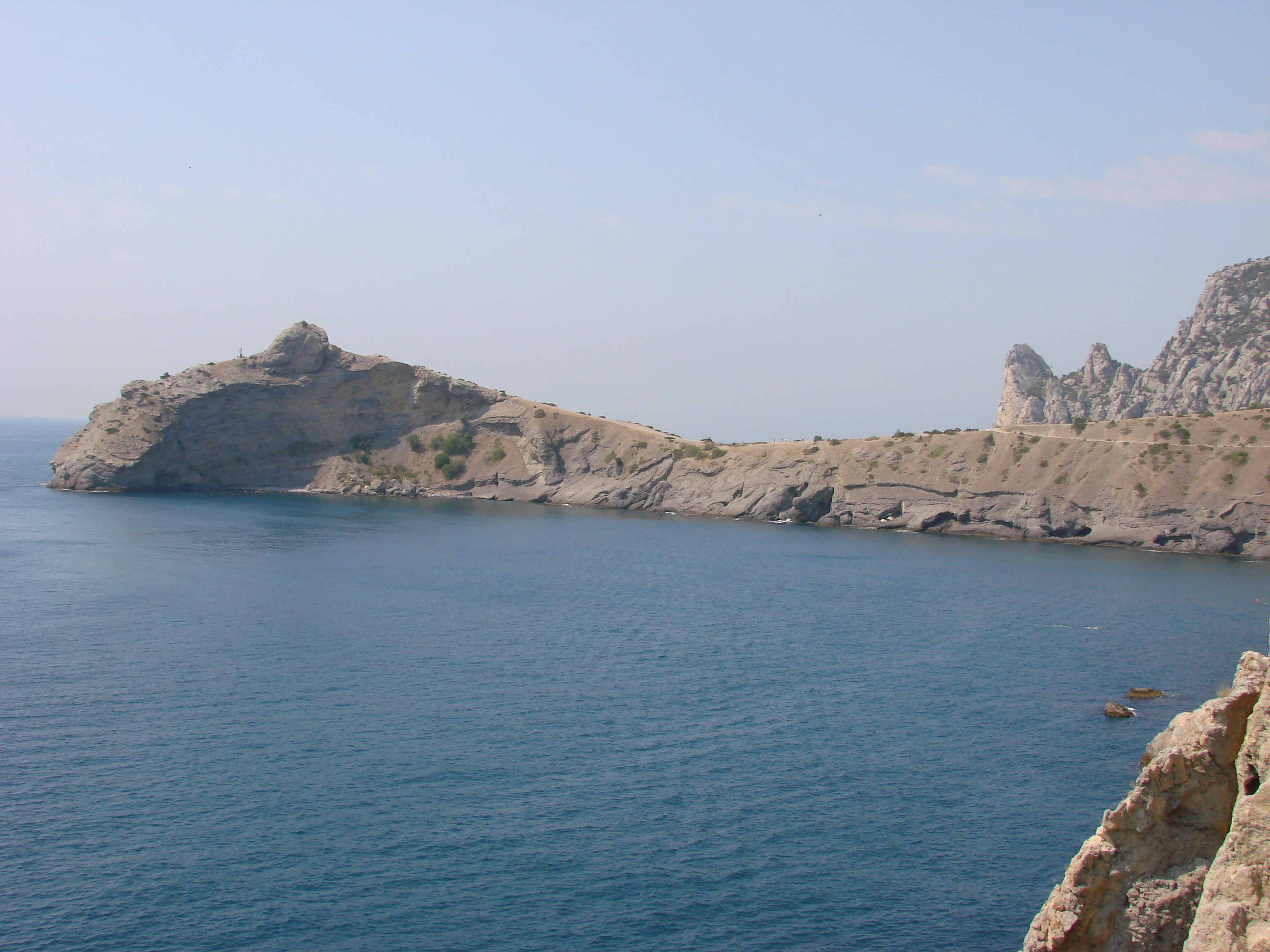 Cape Kapchyk and Synja (Dark blue) Bay. Novyj Svit, Crimea, Ukraine.